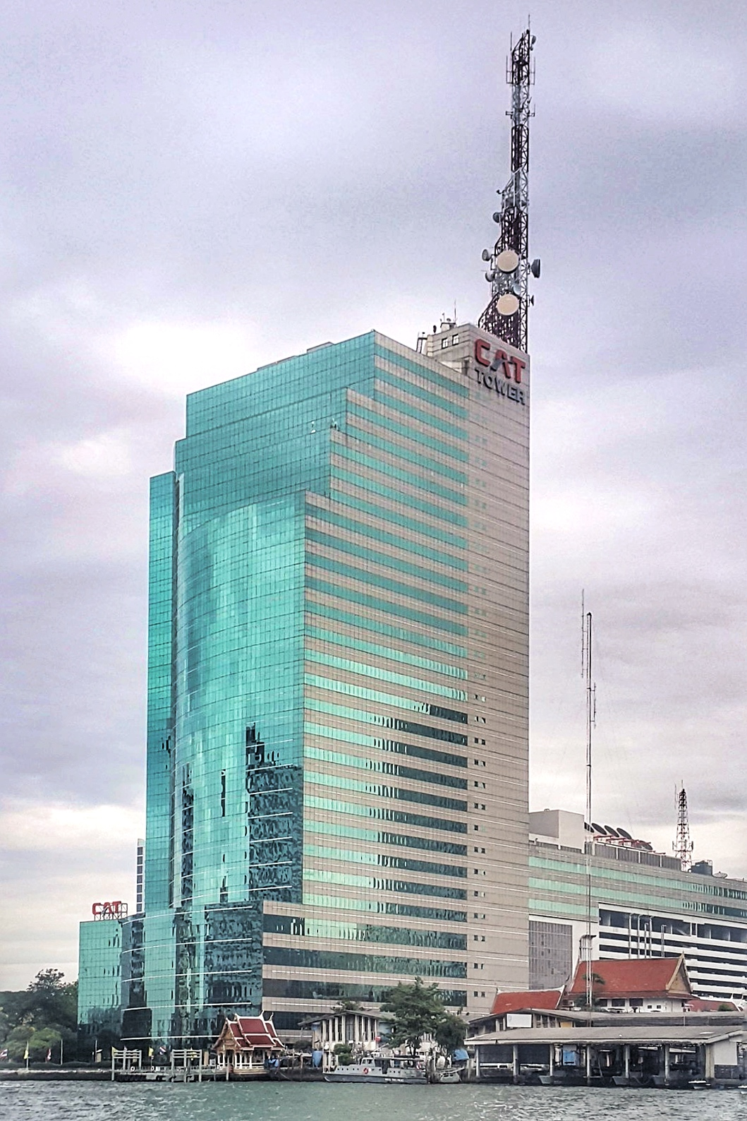 CAT Tower Bangkok